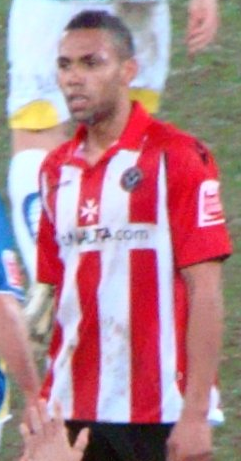 Kyle Bartley in a Blades kit during a loan spell.